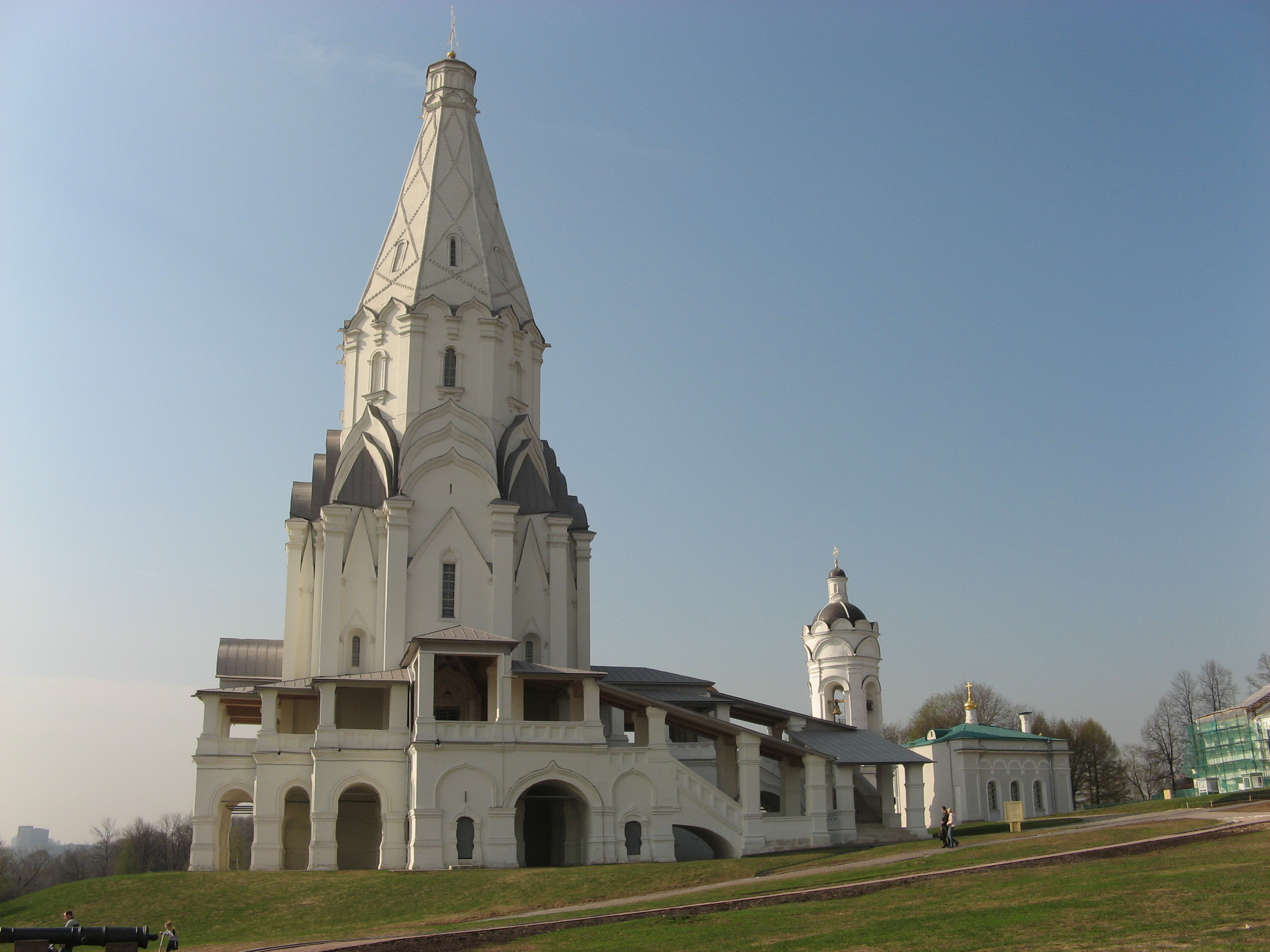 Ascension Church in Kolomenskoe, Moscow